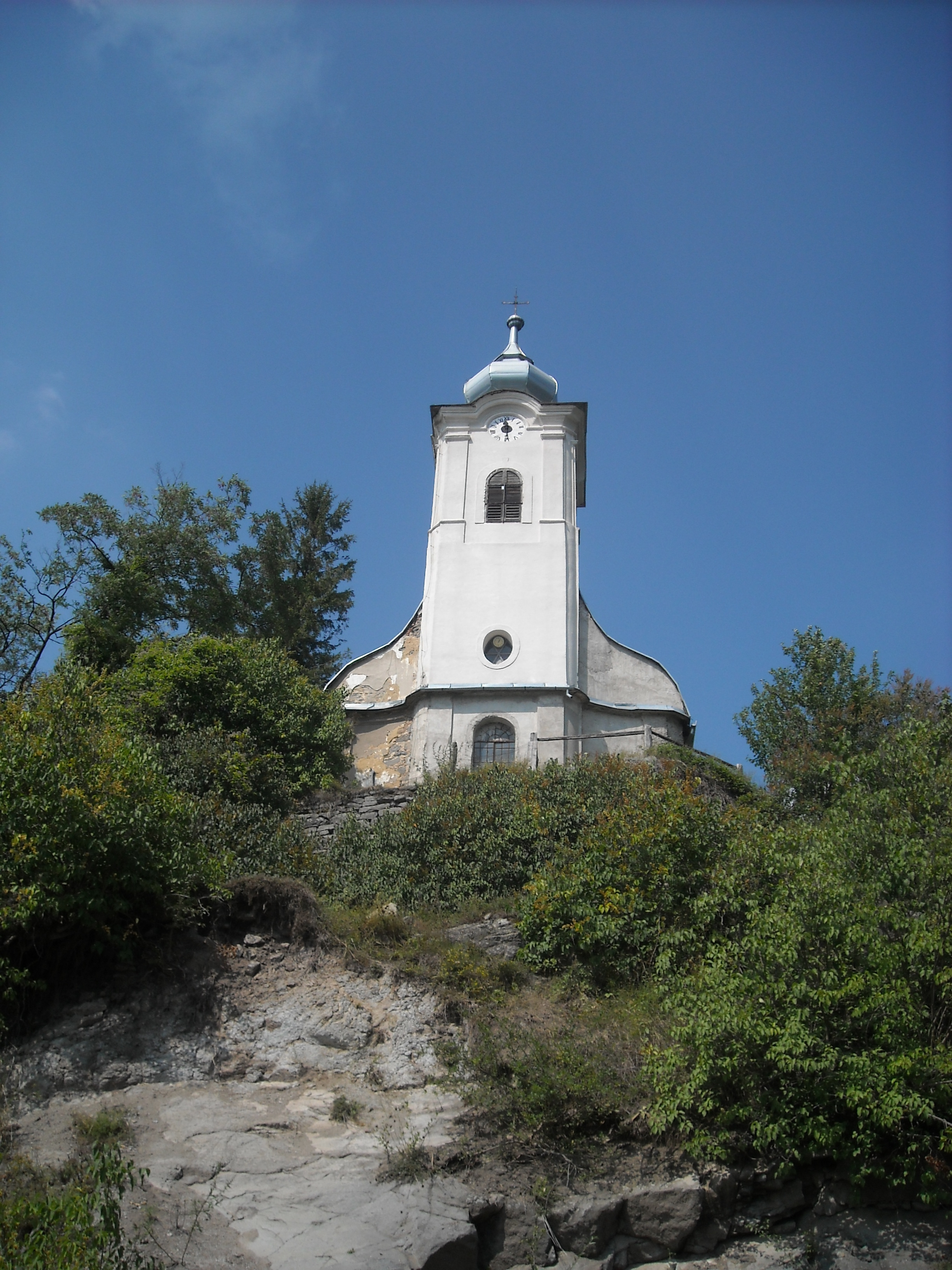 Roman Catholic church in Săcărâmb (Nagyág, Sekerembe), Hunedoara County, Romania